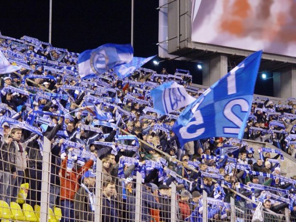 Zenit's fans anthem. Petrovsky Stadium. FC Zenit Saint Petersburg — FC Saturn Moscow Oblast